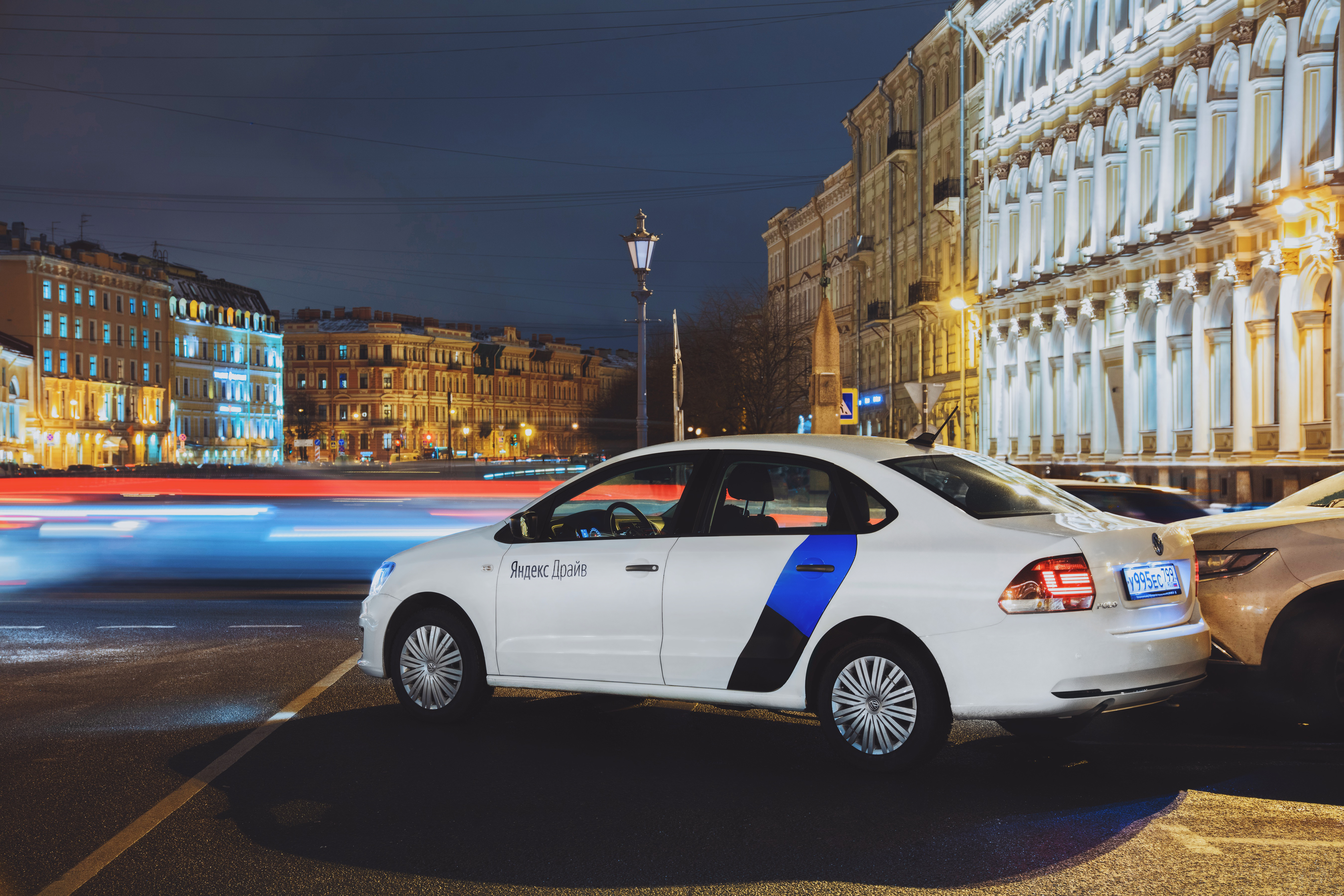 YandexDrive VW Polo in St.Petersburg